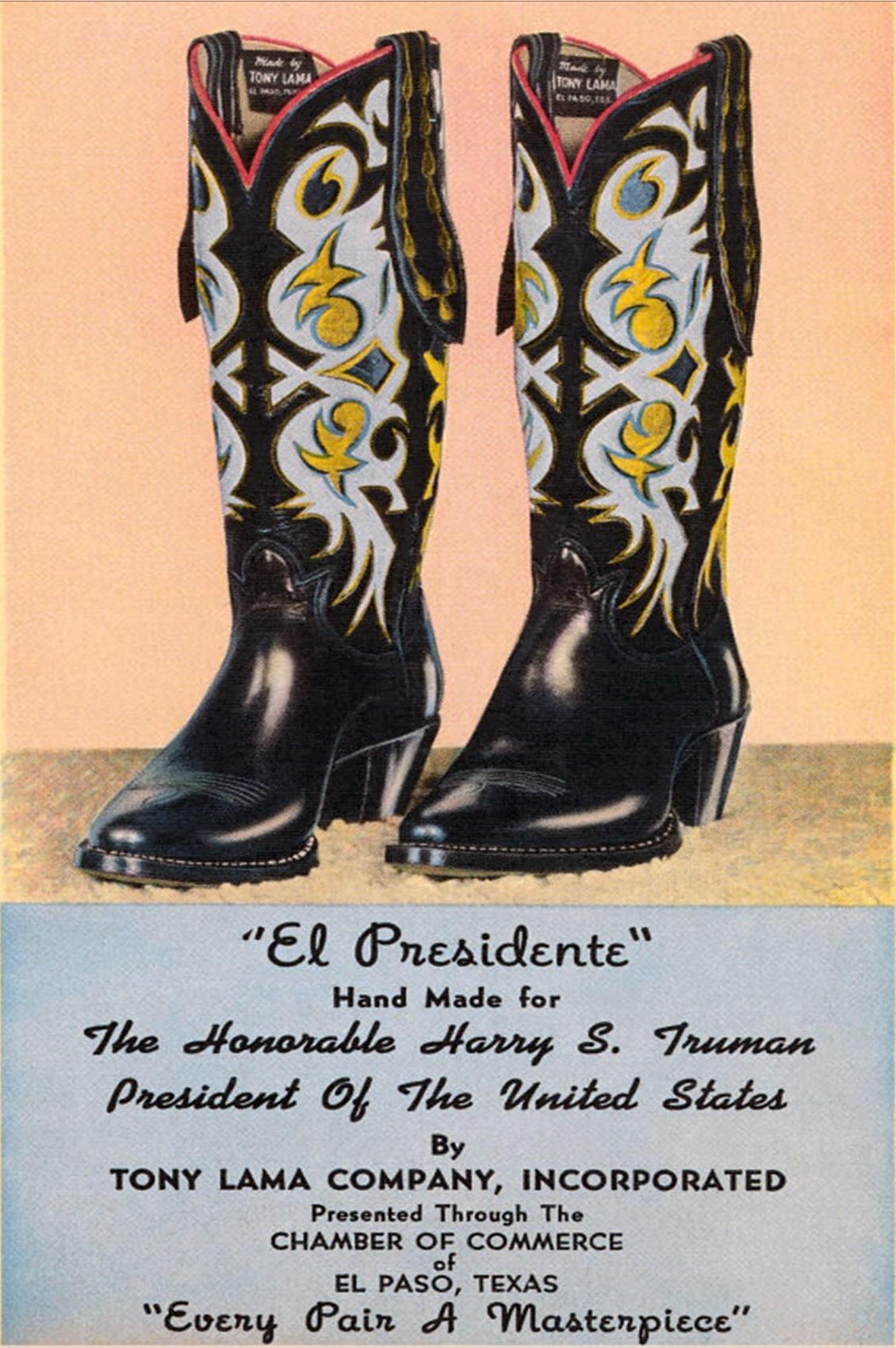 Advertisement featuring "El Presidente", cowboy boots made by Tony Lama for President Harry S. Truman. Image from Category:Boots